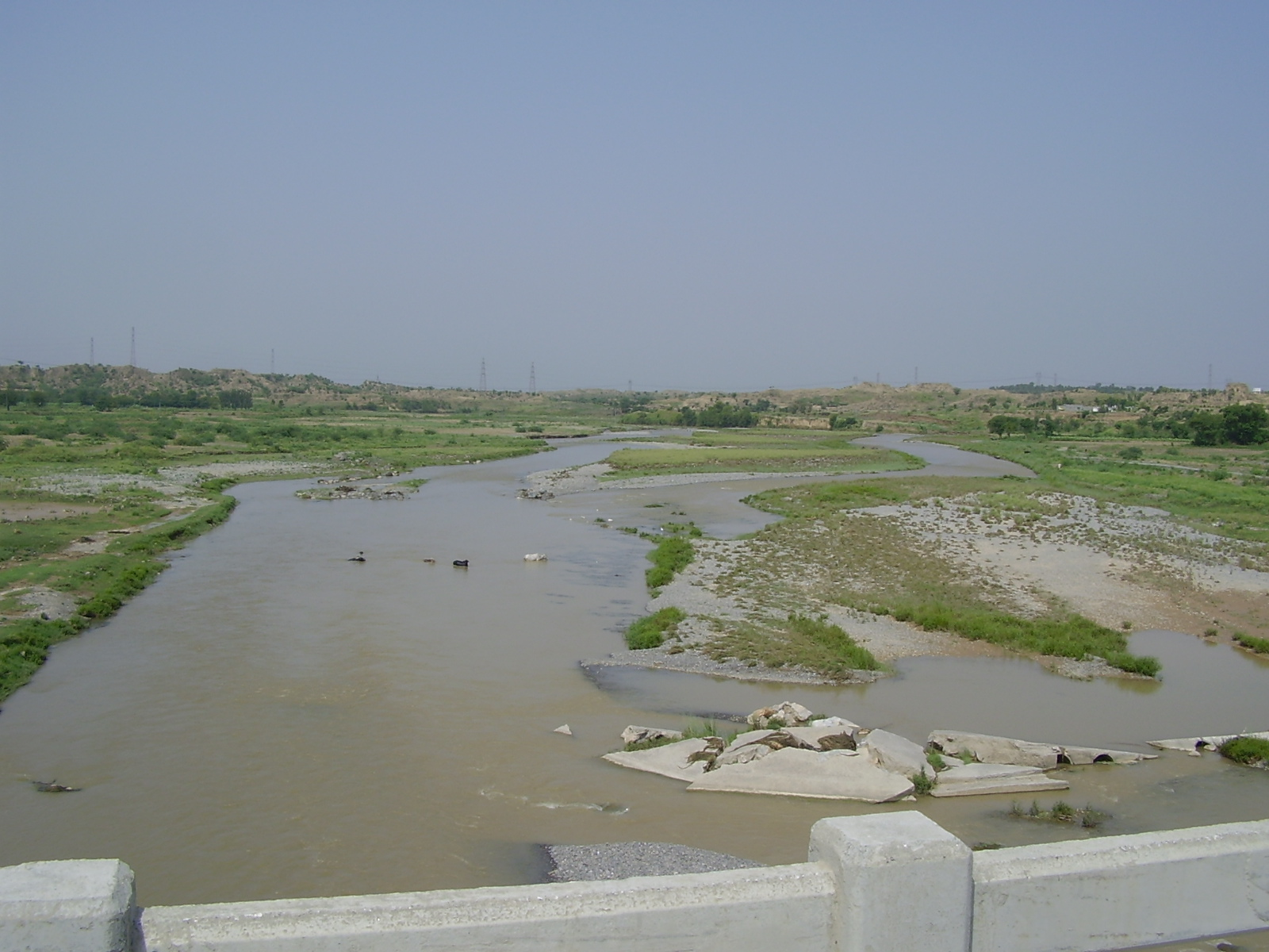 Haro River in northern Punjab Pakistan